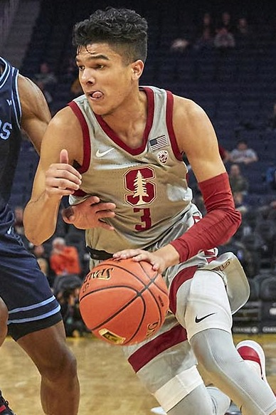 Stanford University Cardinals versus University of San Diego Torendos , Mens Basketball, Chase Center, San Francisco, 2019 Al Attles Classic, Basketball Hall of Fame , CA